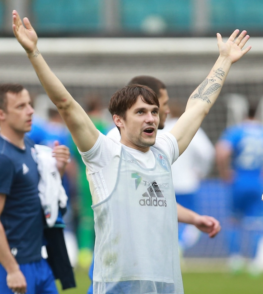 Ivan Solovyov celebrating the victory of FC Fakel Voronezh over FC Dynamo Moscow.